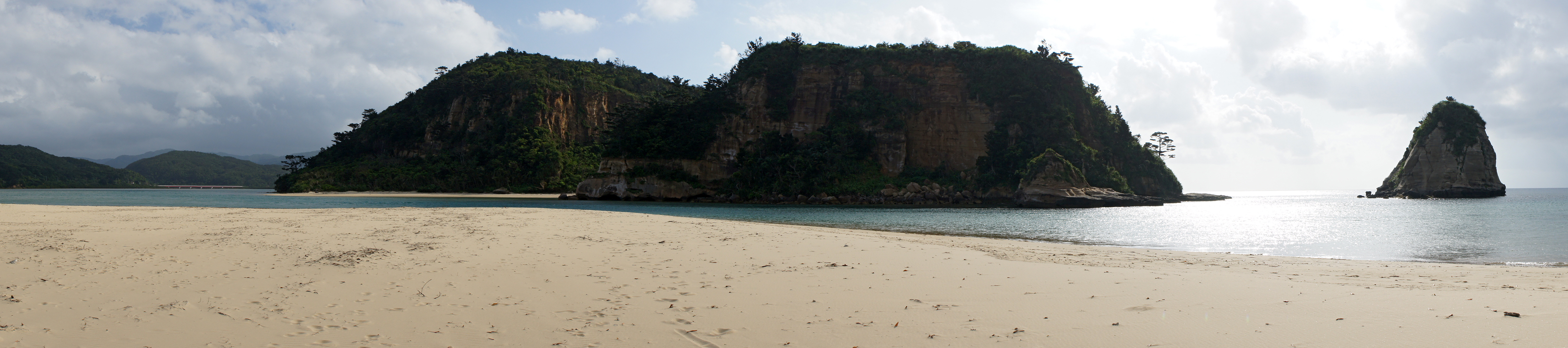 Tudumari-no-hama ( Tsukigahama Beach ) in Iriomote Island, Taketomi Town, Okinawa Prefecture, Japan.